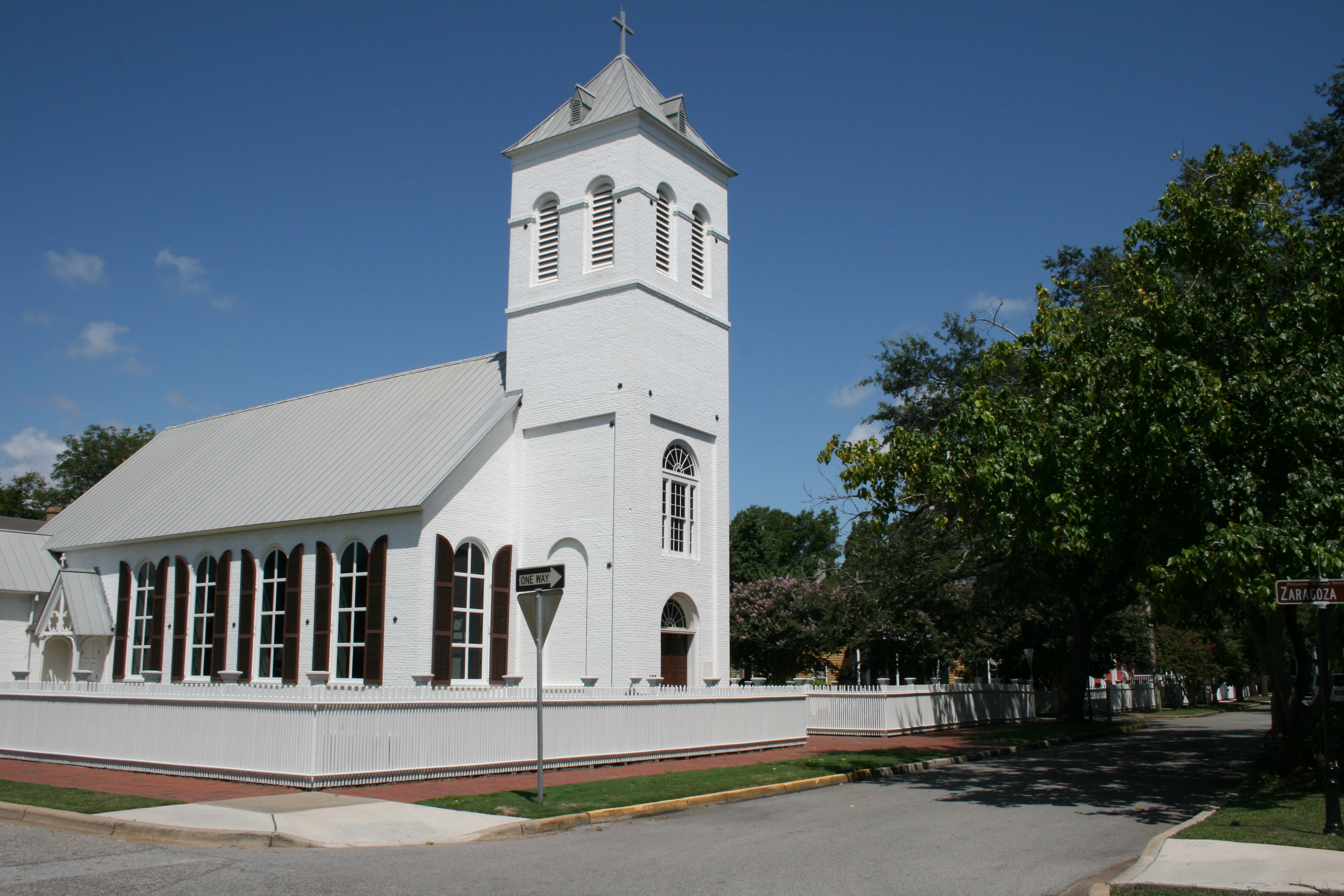 Old Christ Church, Pensacola, Florida